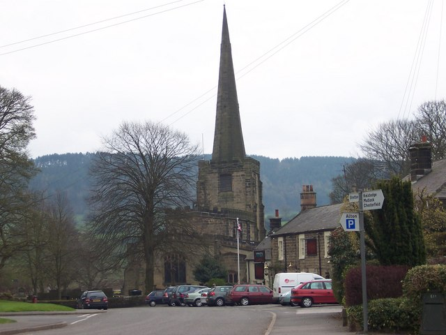 Ashover Parish Church Ashover Parish Church and the Crispin Inn to the right